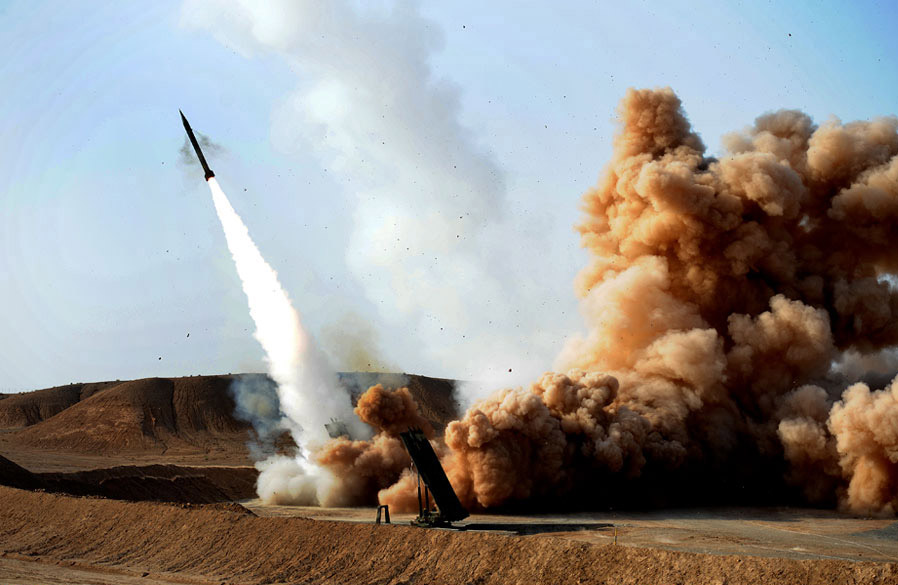 Firing Zelzal 3 in the Great Prophet VI military exercise by IRGC.